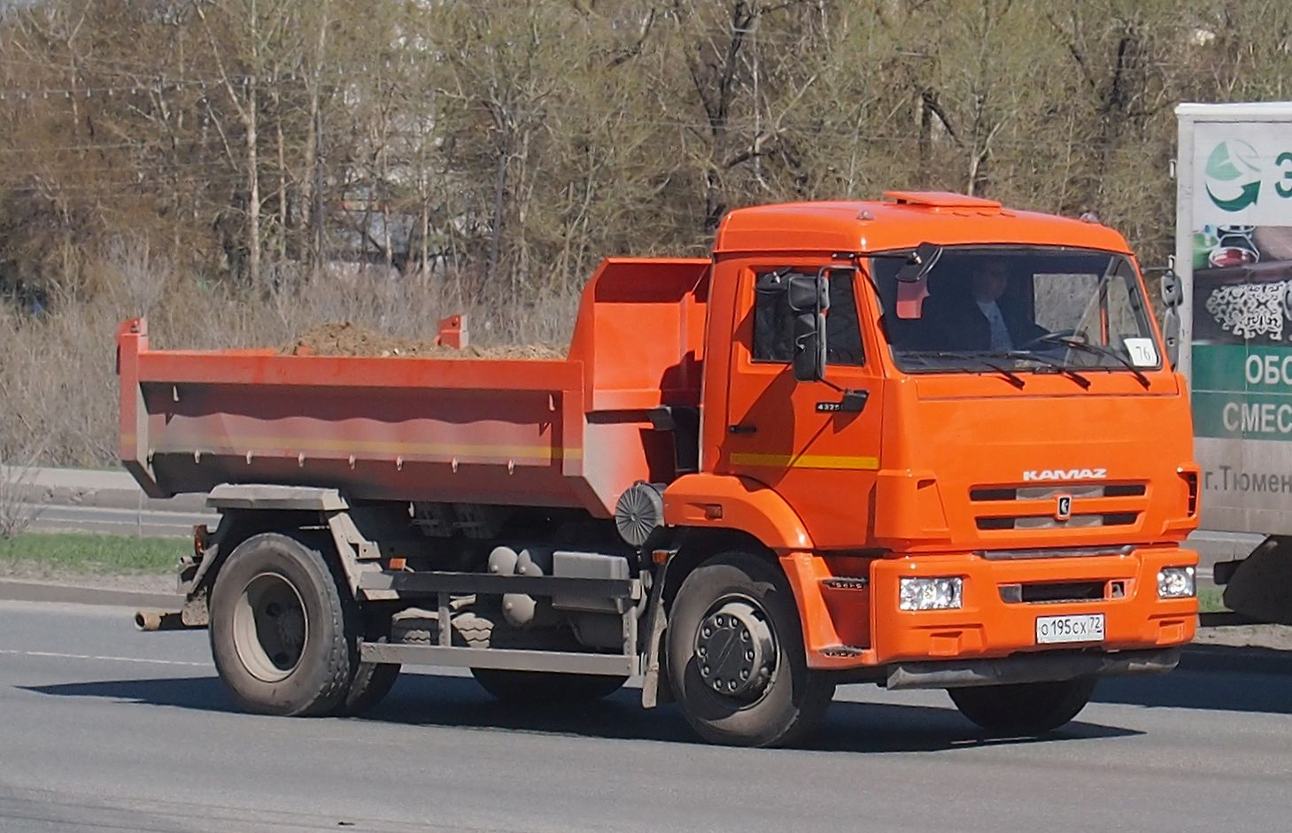 KAMAZ-43255 in Tyumen